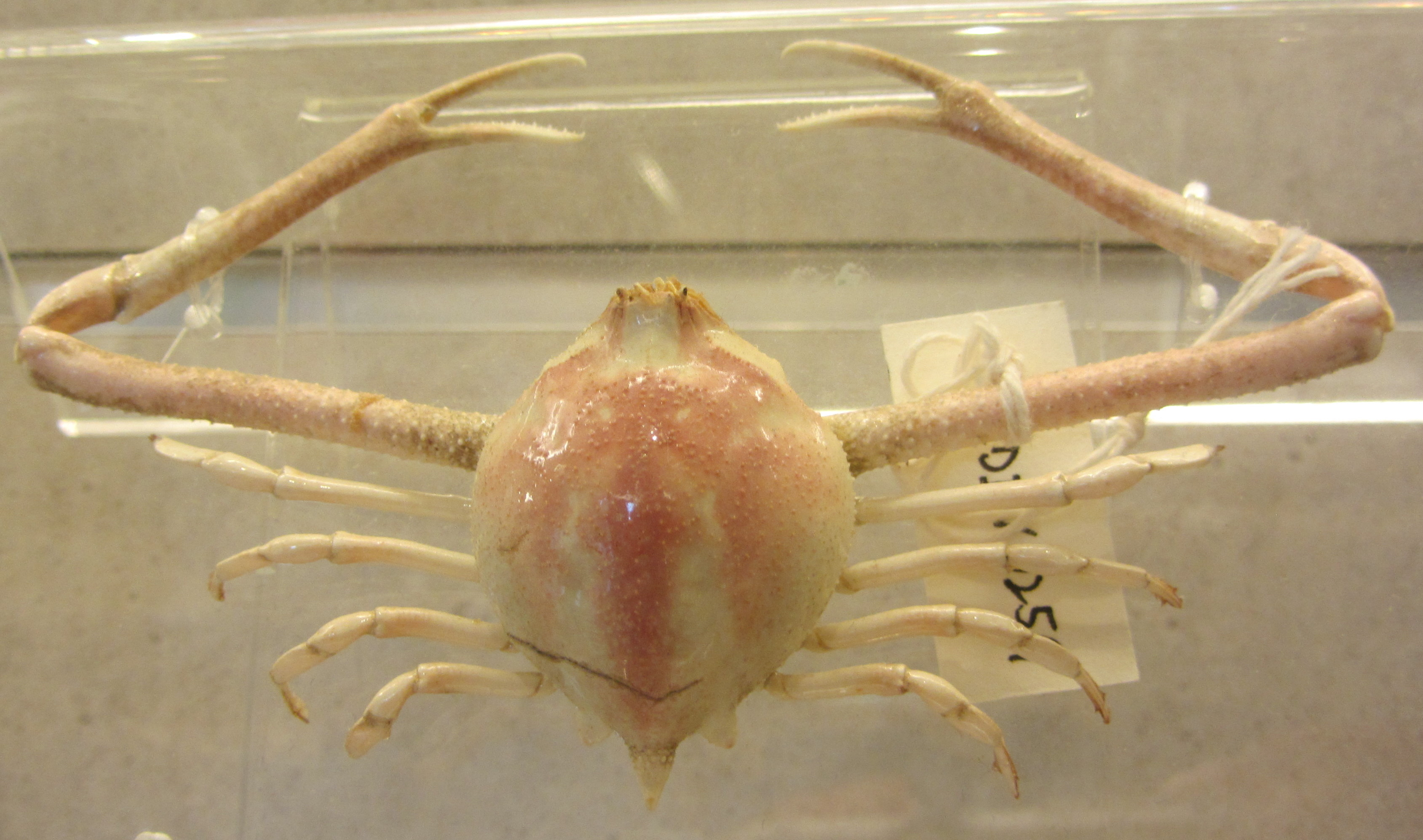 Specimen of Myra fugax